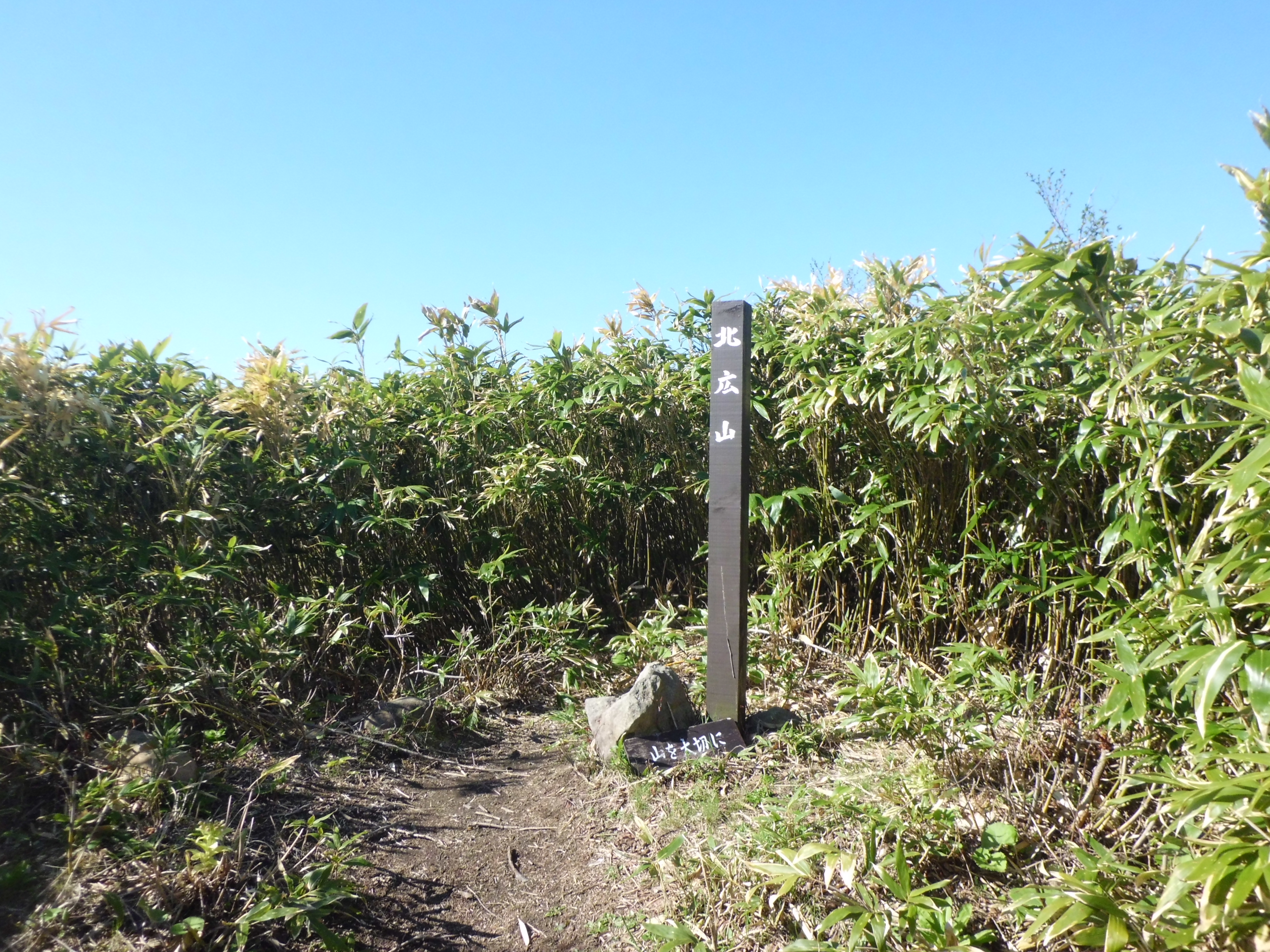 Summit of Mount Kitahiro